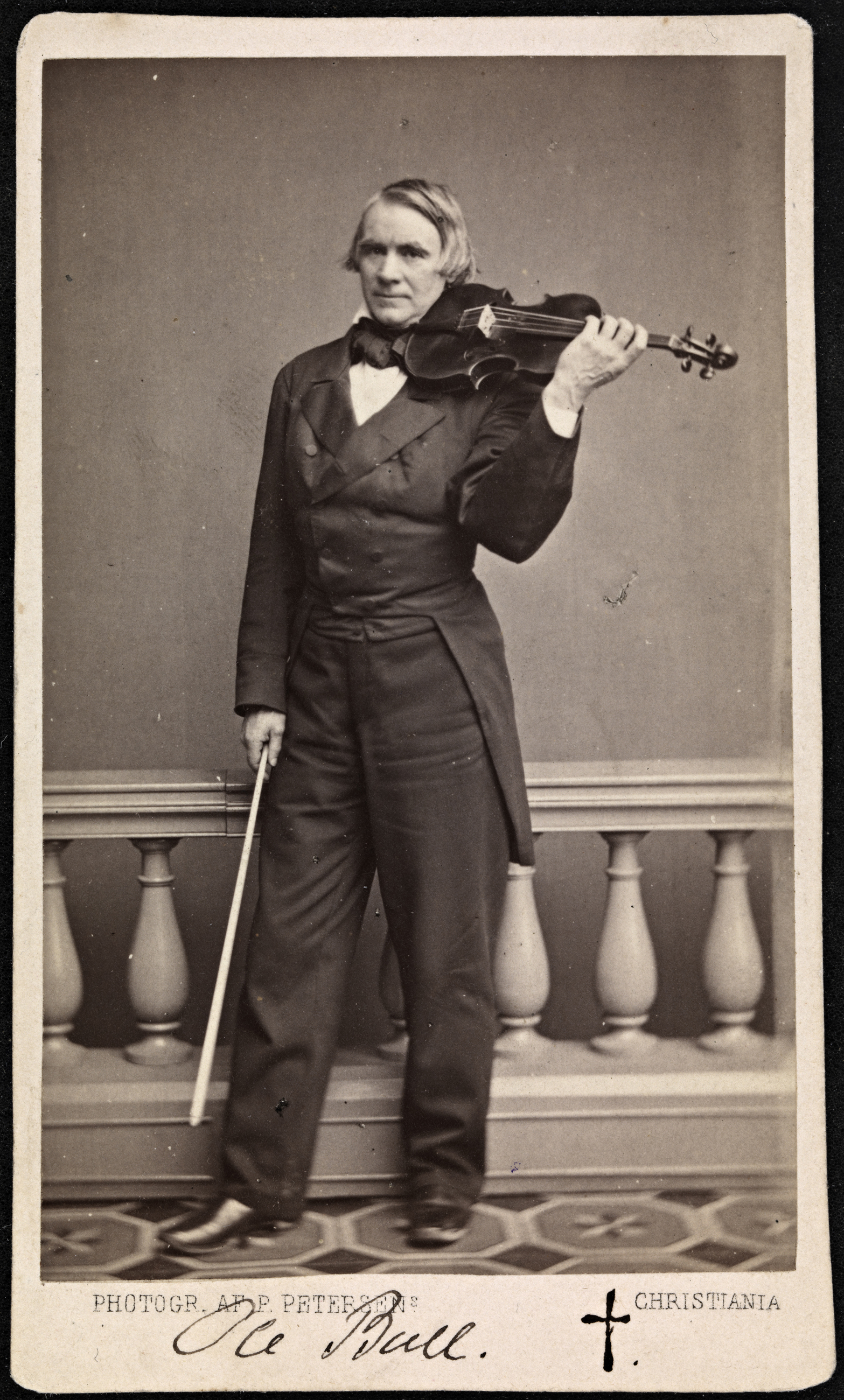 Artist: Peter Petersen Date/place: 1863/64(?), Christiania (Oslo)/Norway Subject: Ole Bull Medium: photographic positive Notes: none Persistent URL: NA Title number: NA Original reference: blds_03466 Original found at [#// The National Library of Norway], digital reproduction by their picture collection.